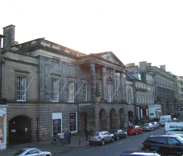 The Assembly Rooms, 54 George Street One of the main Edinburgh Fringe venues.